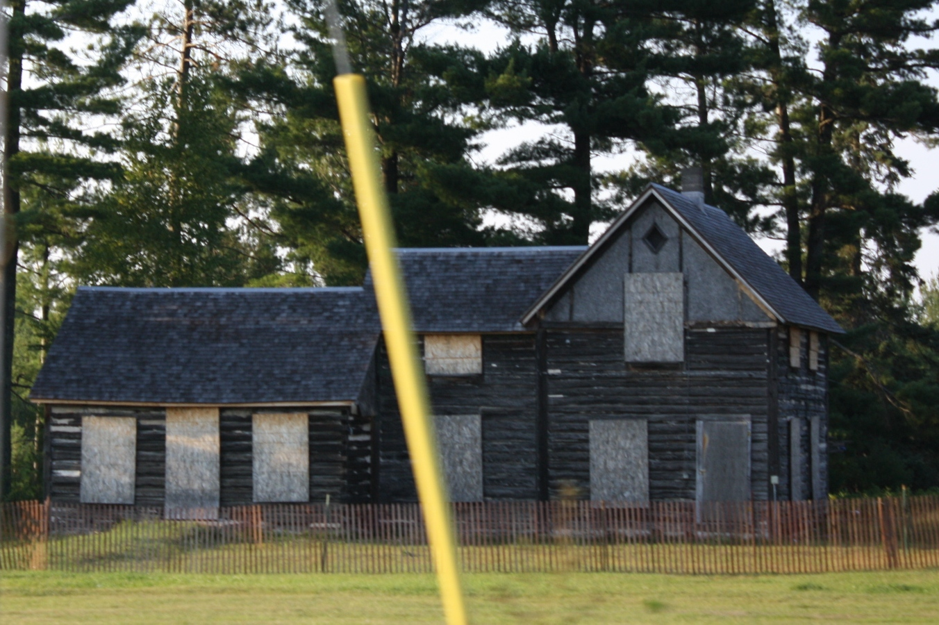 A historic cabin under restoration in Mole Lake, Wisconsin on Wisconsin Highway 55. It is listed on the National Register of Historic Places as the Dinesen-Motzfeldt-Hettinger Log House. The yellow portion is a guy wire from a telephone pole.